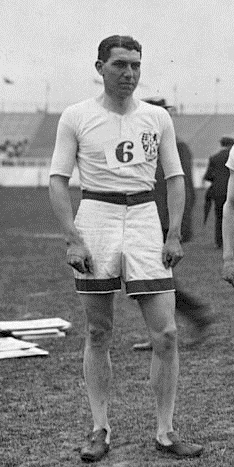 Members of the British athletic team at the 1908 London Olympics, Norman Hallows